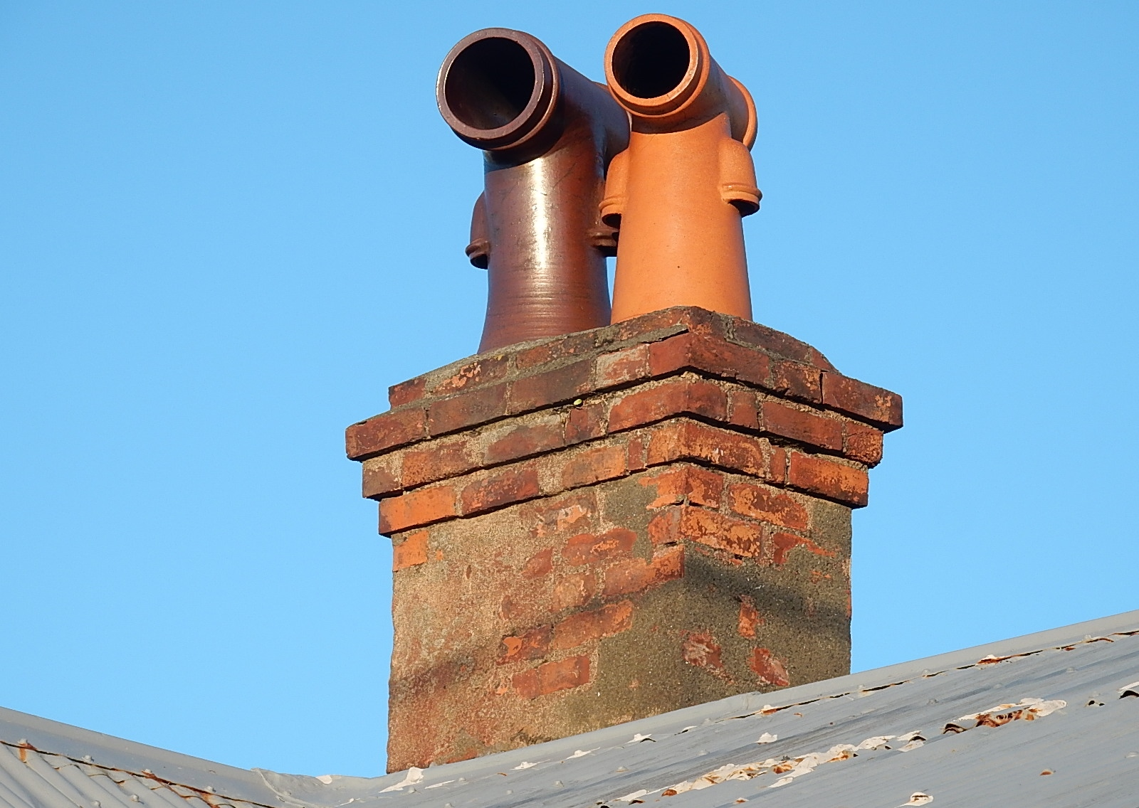 Chimney Pot Sentinels